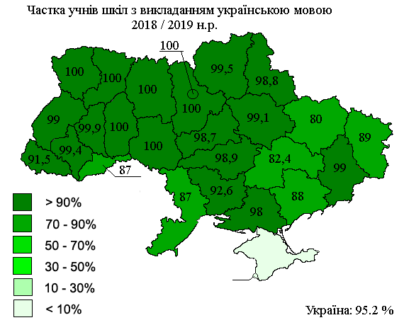 Share of students of schools with ukrainian language of instruction, 2018/2019.